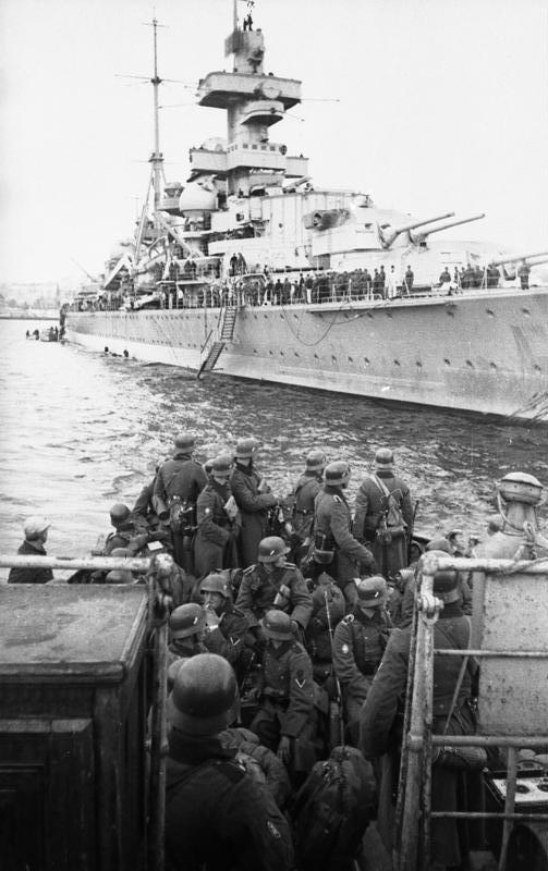 Heavy cruiser Admiral Hipper landing troops in Norway in 1940. Original caption reads "Heavy cruiser Lützow" - but as the heavy cruiser Lützow had been sold to the soviet union and the only remaining ship named "Lützow" was a pocket battleship, the only heavy cruiser that was active landing troops in Norway in 1940 was the Admiral Hipper, as sister ship Blücher had been sunk and Prinz Eugen was not on active duty before 08/1940. Also observe the scars on Hippers starboard bow, scars that appeared enroute to Norway april 1940.